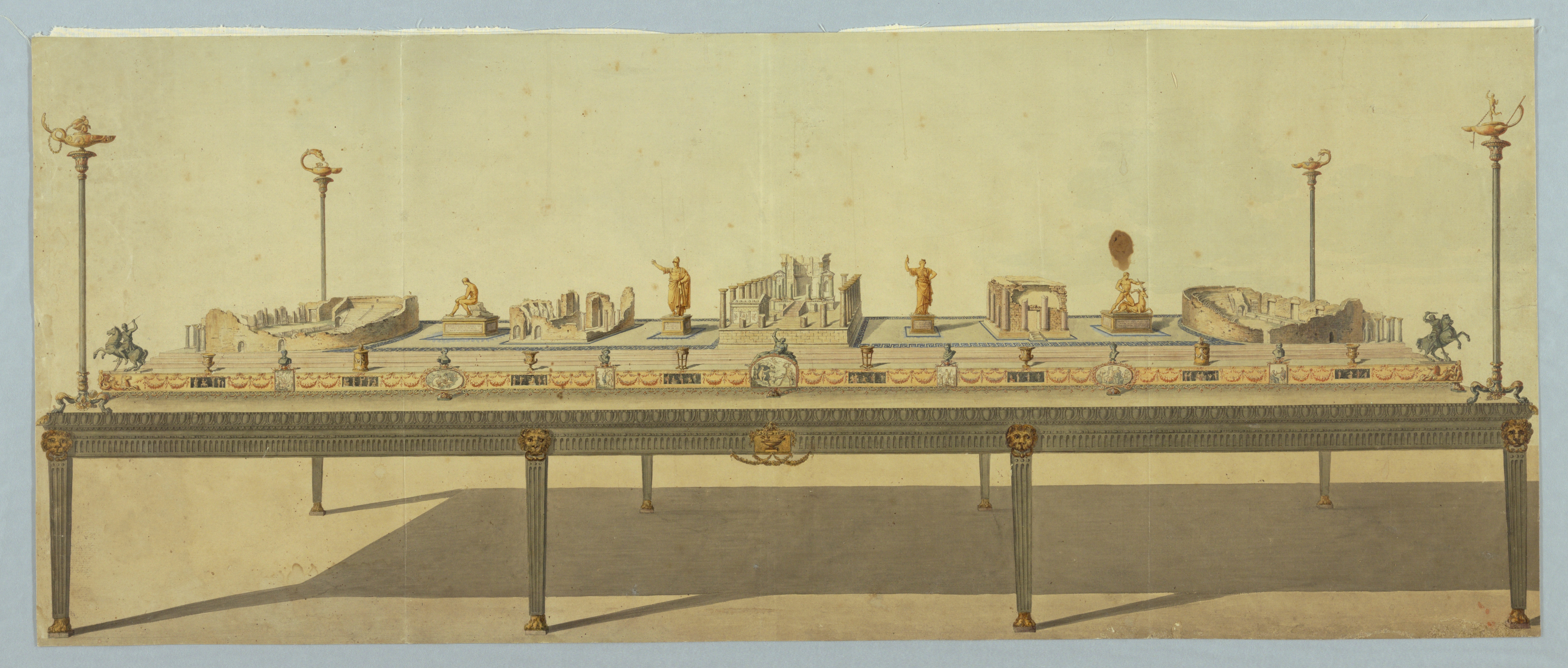 Design for a surtout de table (table centerpiece) whose theme is the ruins of Pompeii. The table’s legs are straight with fluting and a gilded lion mask. The sides of the tables are decorated with rows of moldings, the top being egg-and-dart. At each corner is a high oil lamp in the antique style. The center of the table is stepped. The sides are decorated with figural tablets and swags. Each tablet is topped by a miniature urn, bust, or sculpture. The center of the table features architectural ruins and gilded sculptures on inscribed plinths.